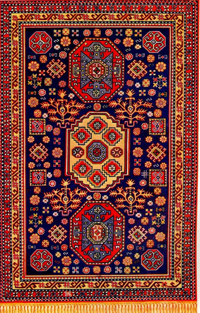 Borchali rug, Kazakh schaool, XIX c.